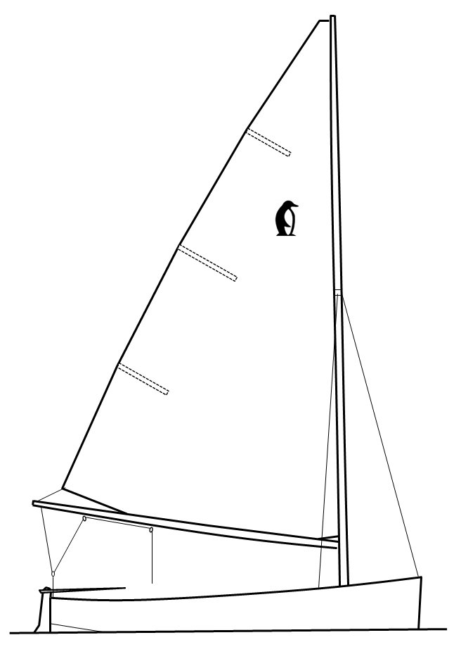 Penguin Class Dinghy